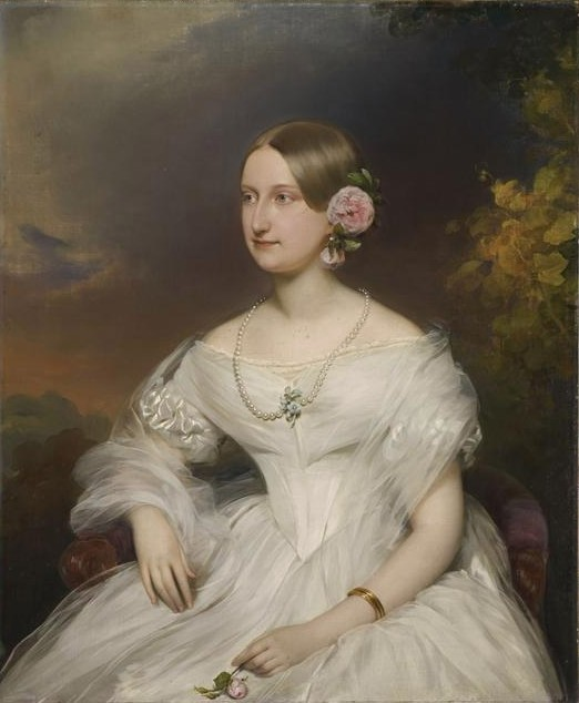 Princess Maria Carolina of Bourbon-Two Sicilies (1822–1869) at 20 years oldlabel QS:Lde,"Maria Karolina von Neapel-Sizilien (1822–1869) im Alter von 20 Jahren" label QS:Len,"Princess Maria Carolina of Bourbon-Two Sicilies (1822–1869) at 20 years old"